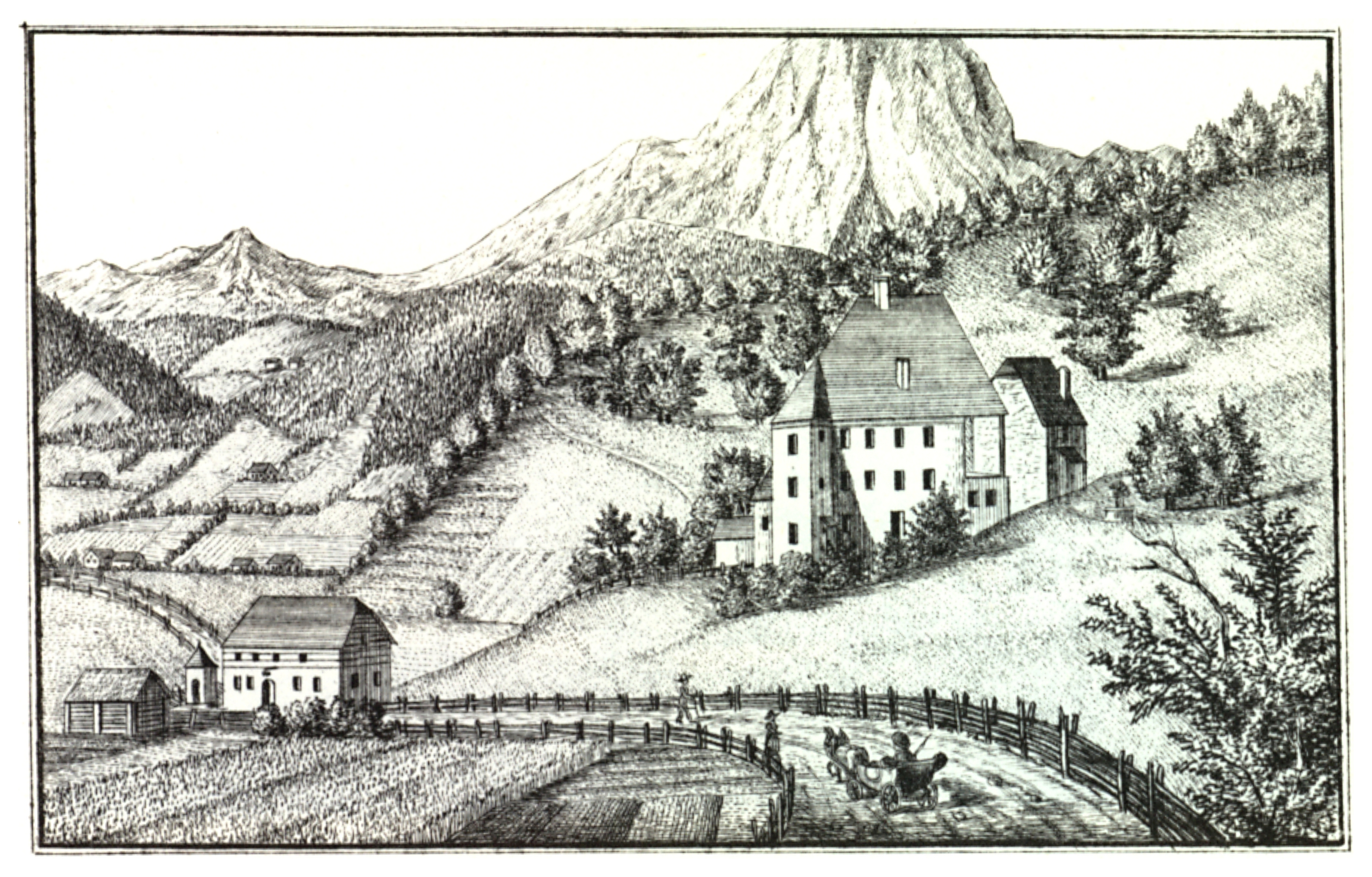 J. F. Kaiser - lithographirte Ansichten der Steyermärkischen Städte, Märkte und Schlösser Graz, 1825 Joseph Franz Kaiser (1786–1859) Alternative names J. F. KaiserDescriptionAustrian printer and editorDate of birth/death 11 March 1786 19 September 1859Location of birth/death Graz (Styria) GrazAuthority control : Q1499963 VIAF: 30629353 ISNI: 0000 0000 3083 0153 LCCN: n87141671 GND: 129880159 NLP: A24960305 WorldCat creator QS:P170,Q1499963 Scanprojekt Community Projektbudget 2012 This scan or this PDF-file was created within the GLAM-project Bookscanning, supported by Wikimedia Germany and Wikimedia Austria as a part of the community-project to capture books, documents and pictures which are not eligible to copyright or for which the copyright has expired. This document describes or depicts an object which is located in Austria today. Send requests for uncompressed scans to Hubertl. This work is in the public domain in its country of origin and other countries and areas where the copyright term is the author's life plus 100 years or less. You must also include a United States public domain tag to indicate why this work is in the public domain in the United States. This file has been identified as being free of known restrictions under copyright law, including all related and neighboring rights.